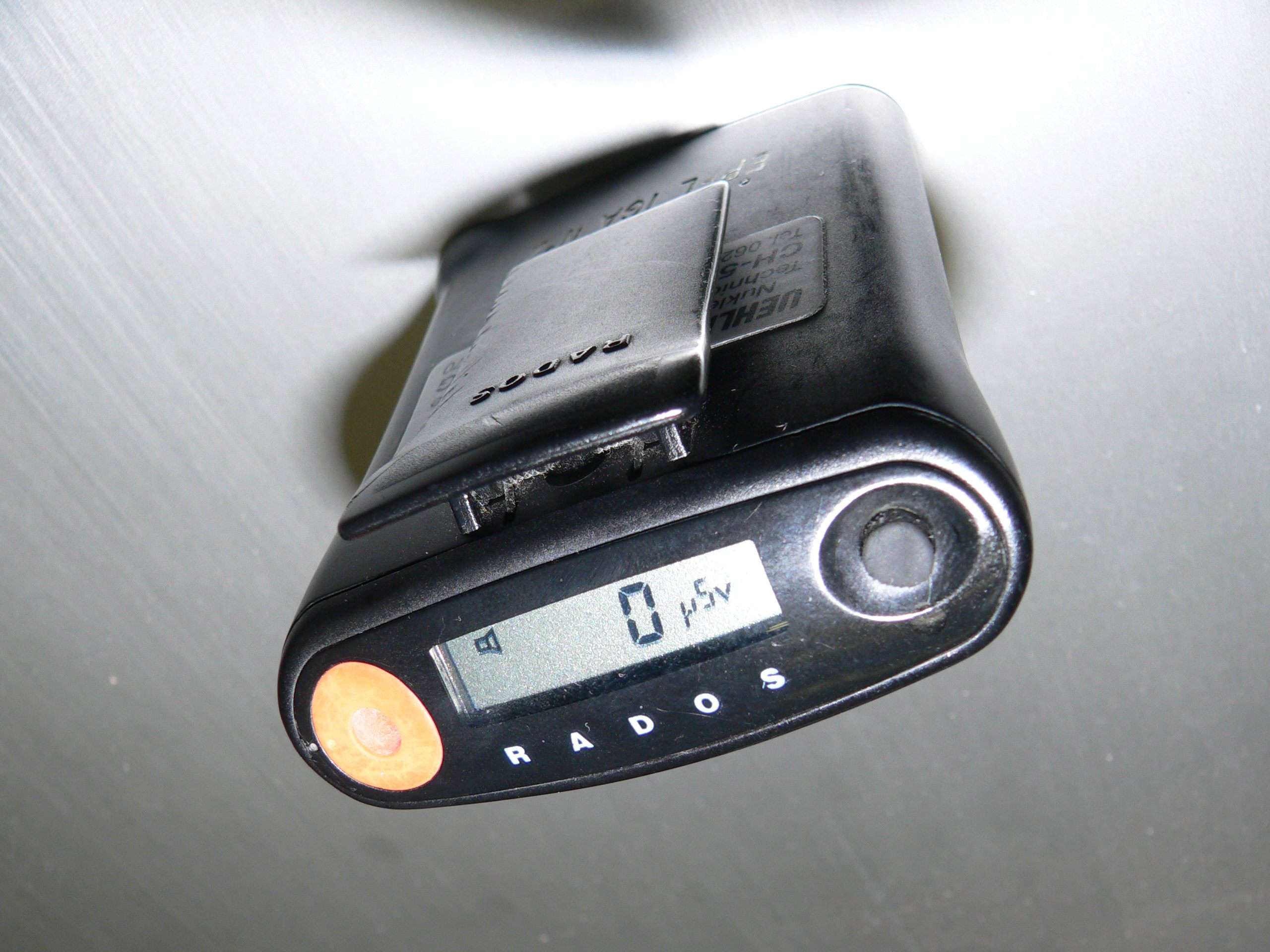 Nuclear installations at the EPFL CROCUS Reactor; CAROUSEL experiments; miscalenous experiments and manipulations; detectors and instruments. Dosimeter (the one I was wearing. It stayed at zero micro-Sivert for the whole hour) Wholehearted thanks to René Frueh, chief of operations of CROCUS, for devoting a whole hours to open doors of this universe and explain technical details.